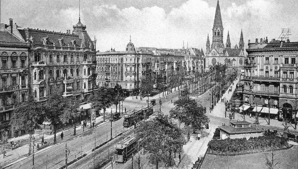 View of the Kurfürstendamm, West to East, taken in 1916.